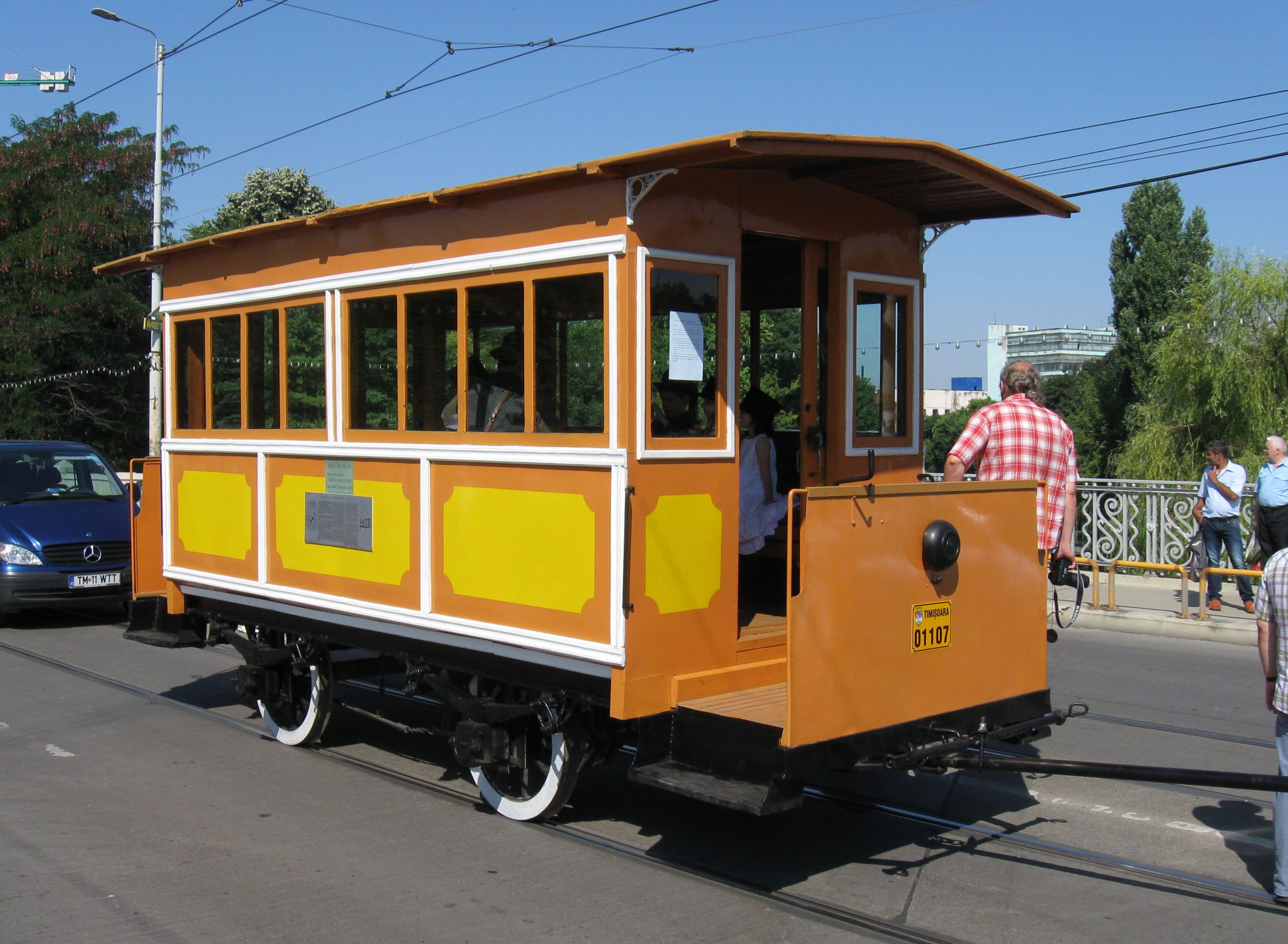 July 8, 2011 - Celebration of 142 years since the first horse tram line of Timisoara.